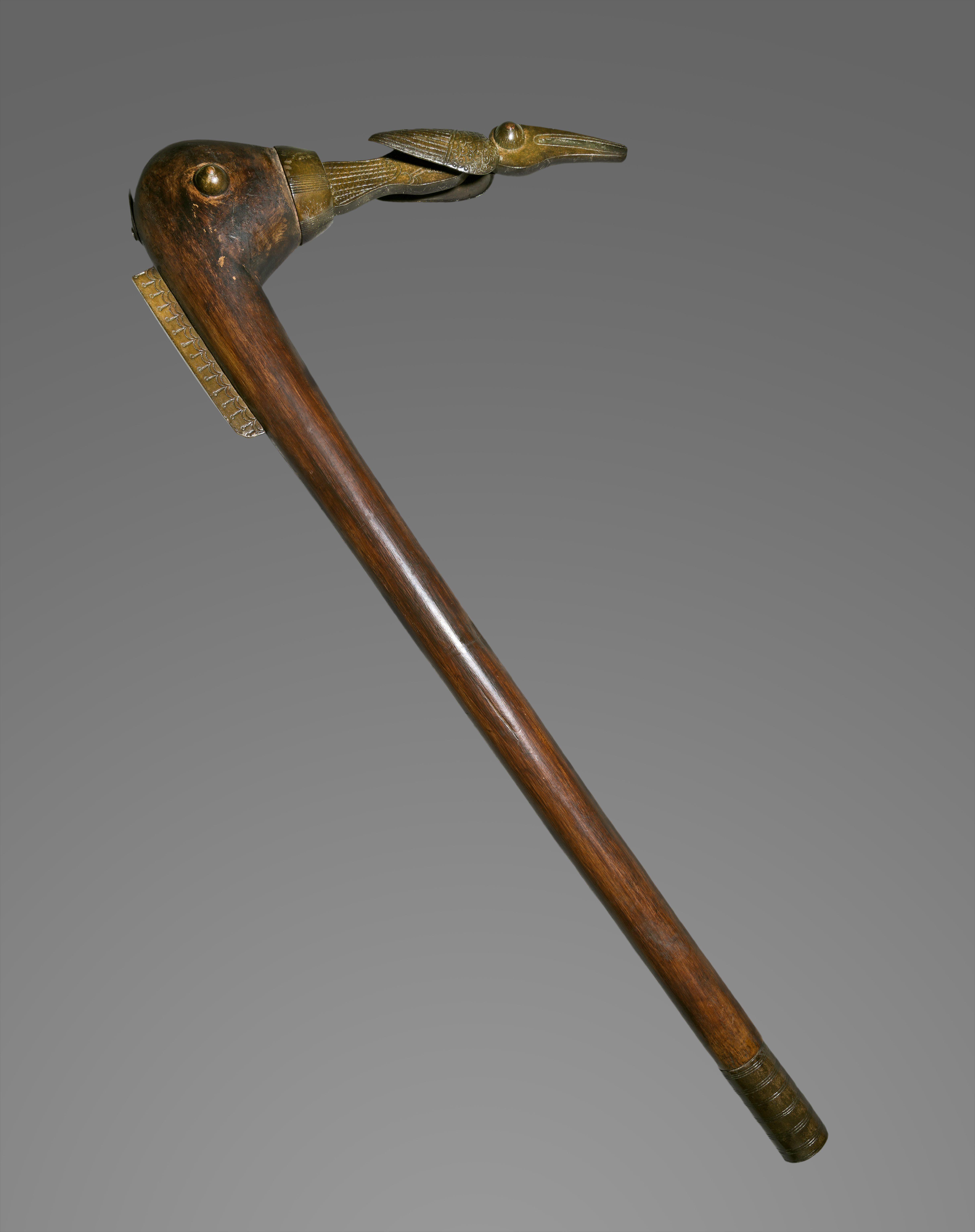 Recade (o makpo) bird-headed A Recade is a scepter of the ancient kingdom of Dahomey, shaped stick or ax. This is one of the symbols of authority of the sovereign, also a staff of command given to the courier to the recipient to ensure the authenticity of the royal message. The term is derived from the Portuguese recado meaning "message" or "Mandat". Population : Fon people. Former Dahomey, current Benin Date of collection: 1948 Materials: Wood, and brass Size : 51 x 23 x 6 cm